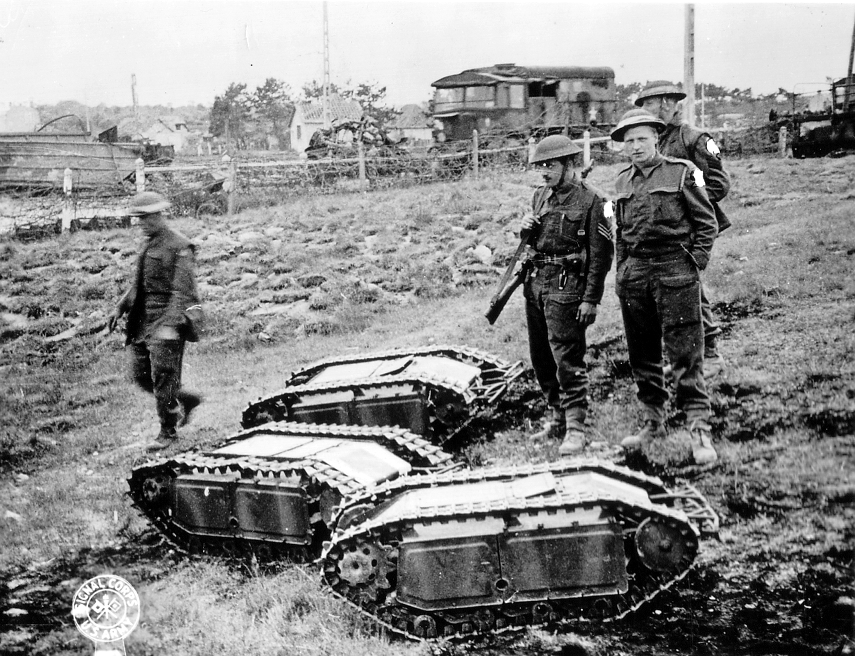 German mini tanks manufactured by Borgward